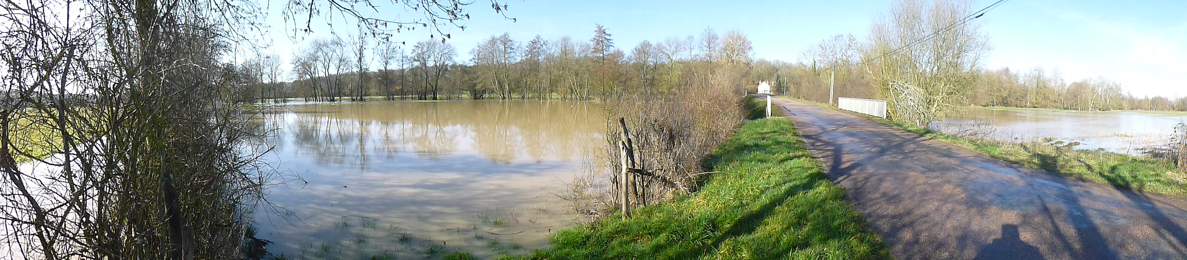 The Branlin river crossing the D 208 at Malicorne, Yonne, Burgundy, France. Flooded fields on Feb. 25, 2014, after a few days' rain (the local rivers were already well full). Looking west (wide angle). The river is usually hardly more than a small stream at this place.